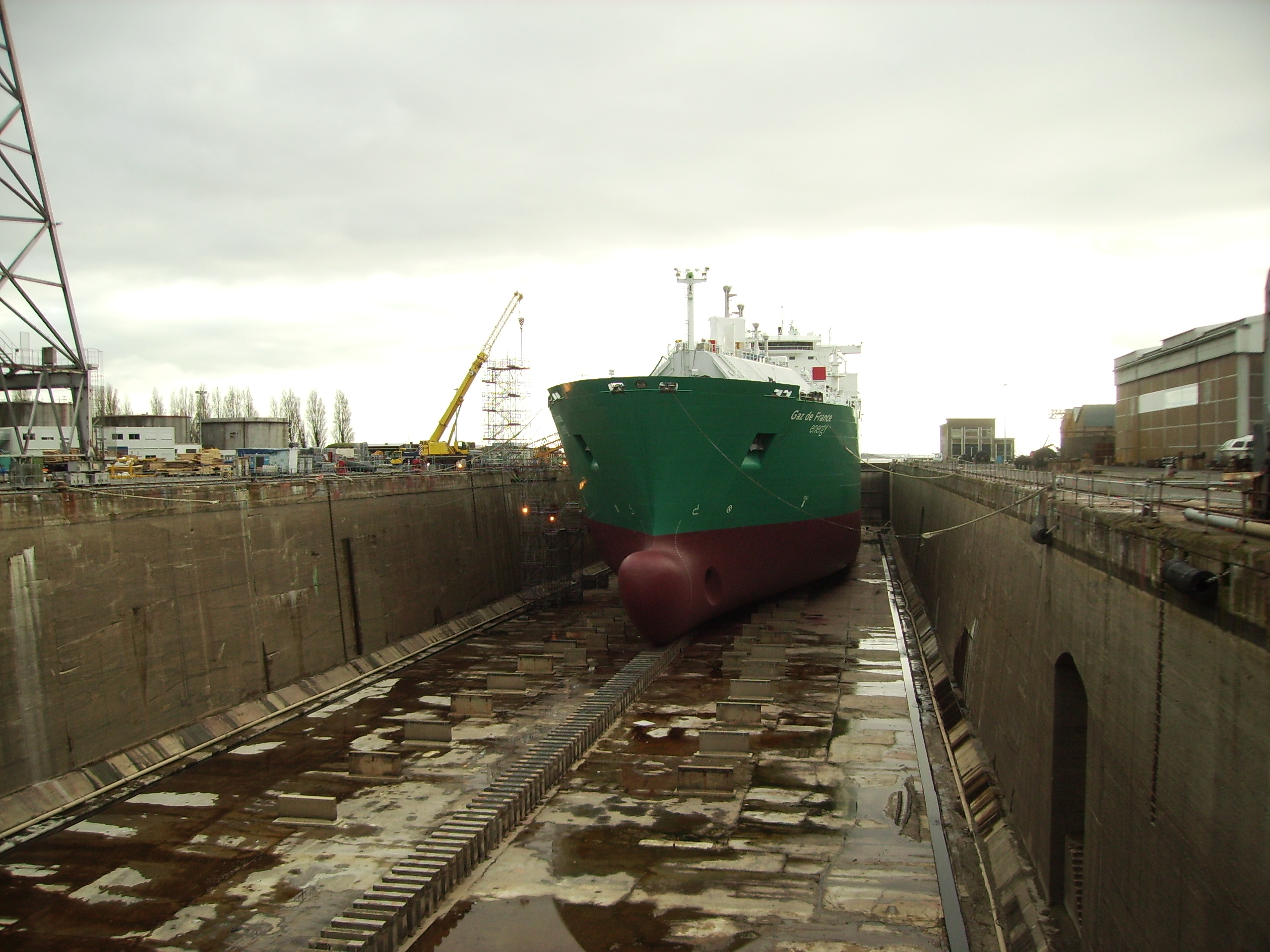 La Forme Joubert dans le port de Saint-Nazaire Ship name: Gaz De France Energy IMO Number: 9269207 MMSI Number: 635238000 Callsign: FMCK Length: 219 m Beam: 34 m